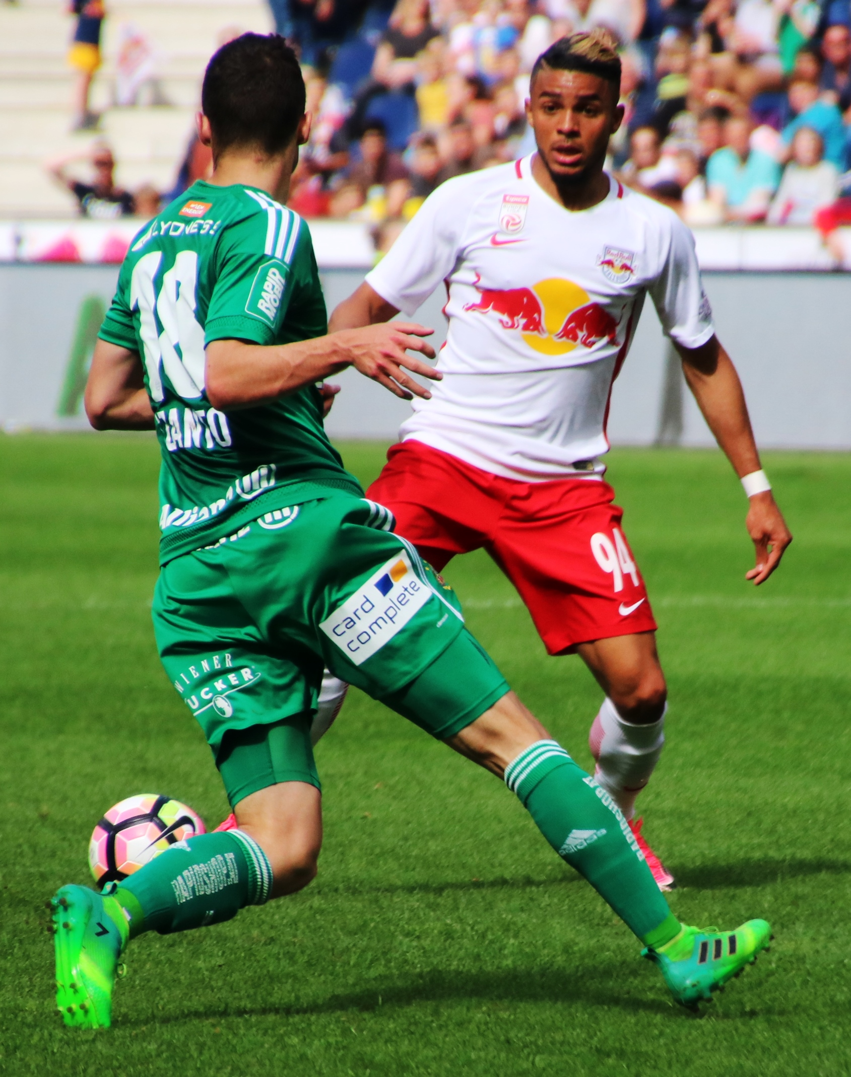 league match Austrian Bundesliga